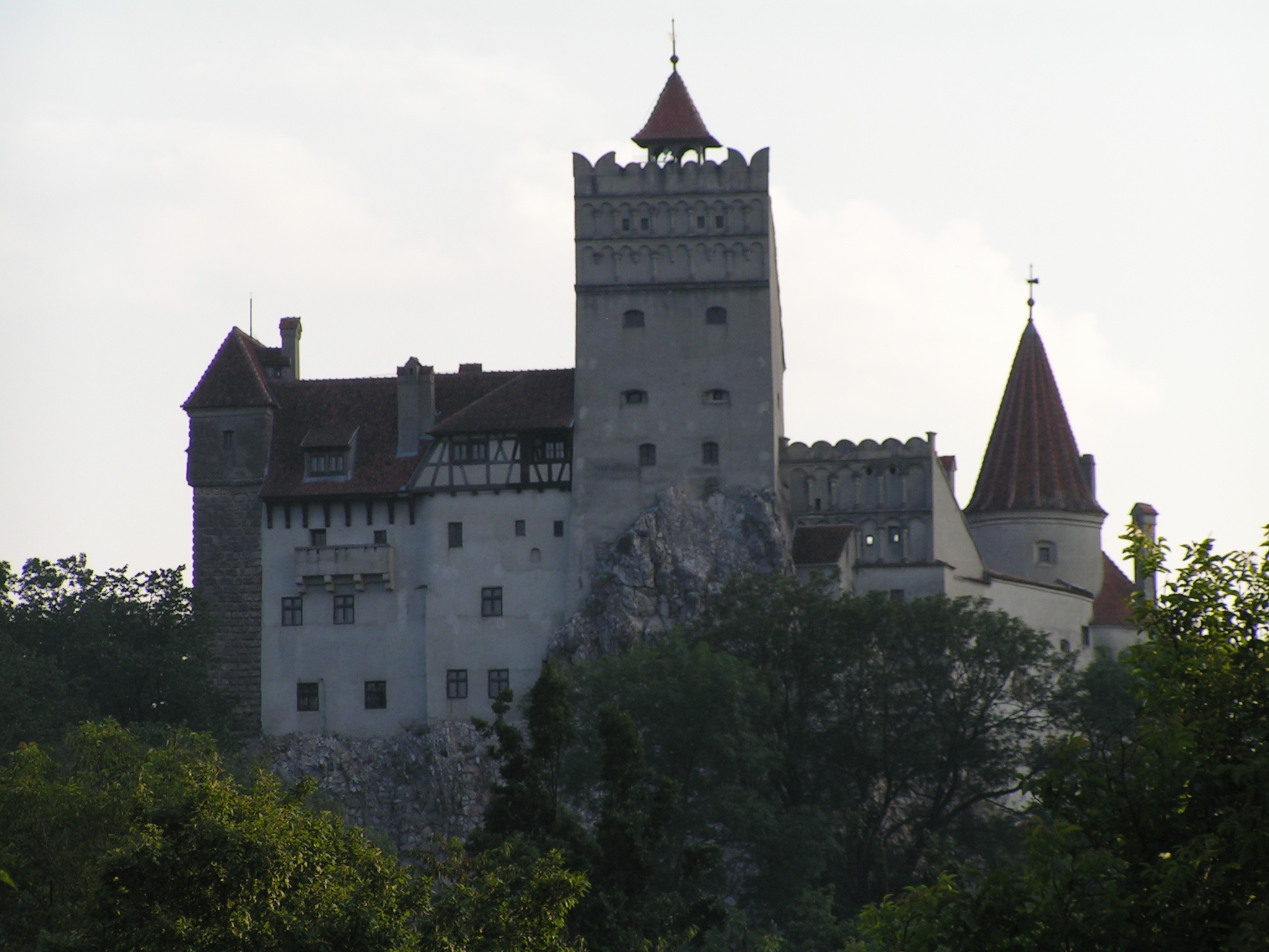 Bran Castle, also known as "Dracula's Castle" in România. --CrimsonC 22:24, 10 July 2006 (UTC)